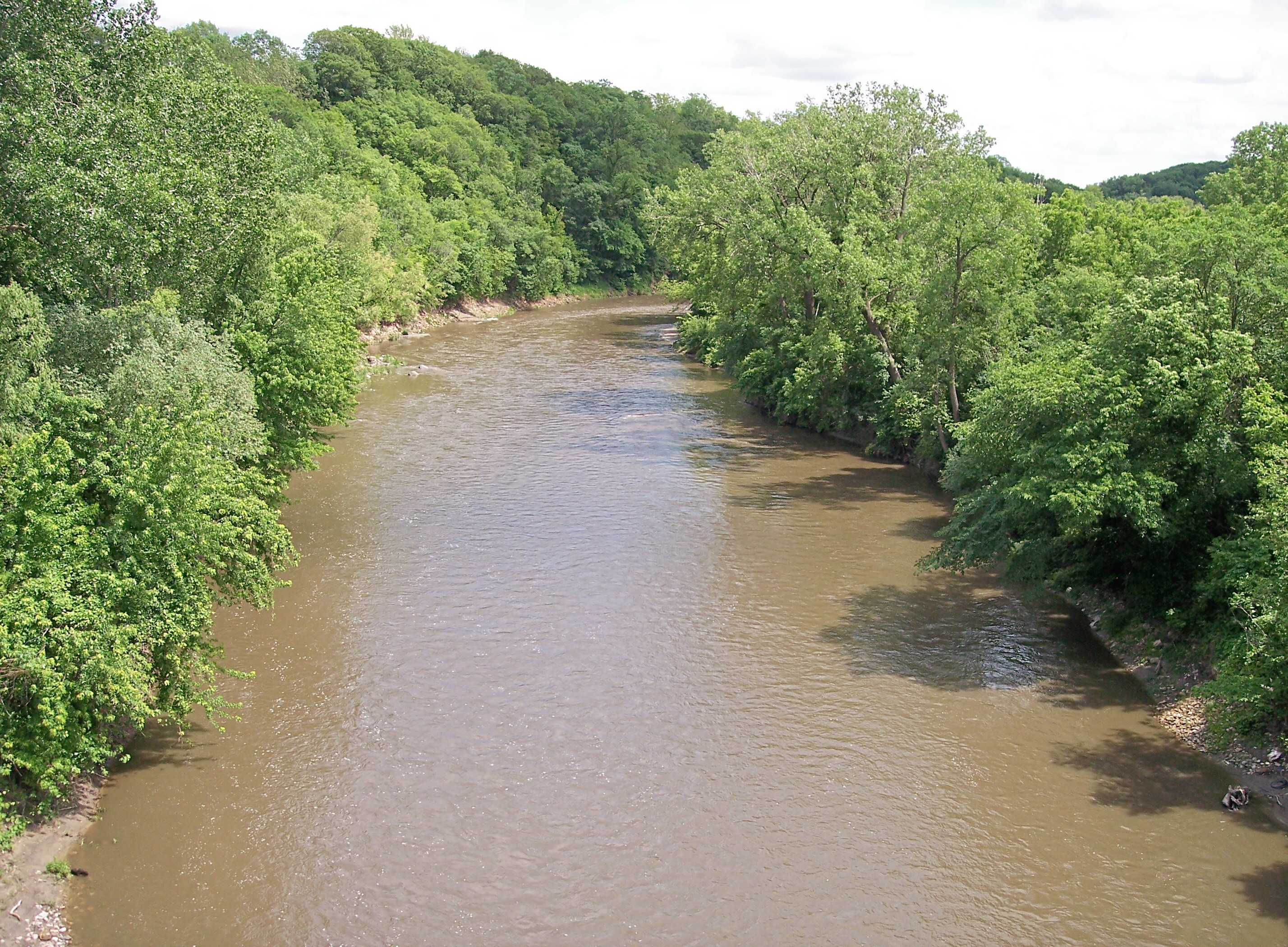 The Le Sueur River as viewed upstream from the Red Jacket rail trail in South Bend Township, Minnesota